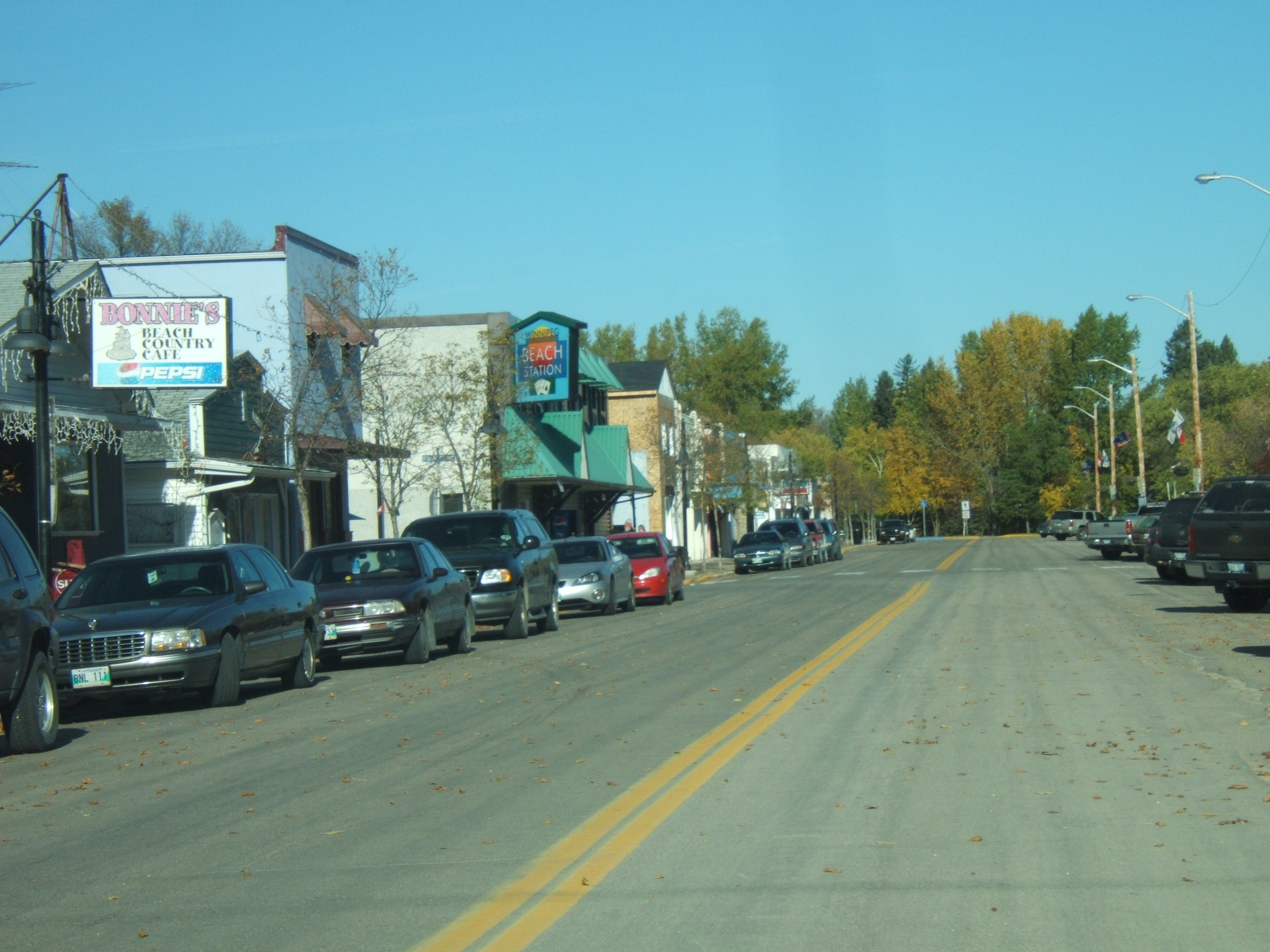 Downtown Winnipeg Beach, Manitoba, in October.